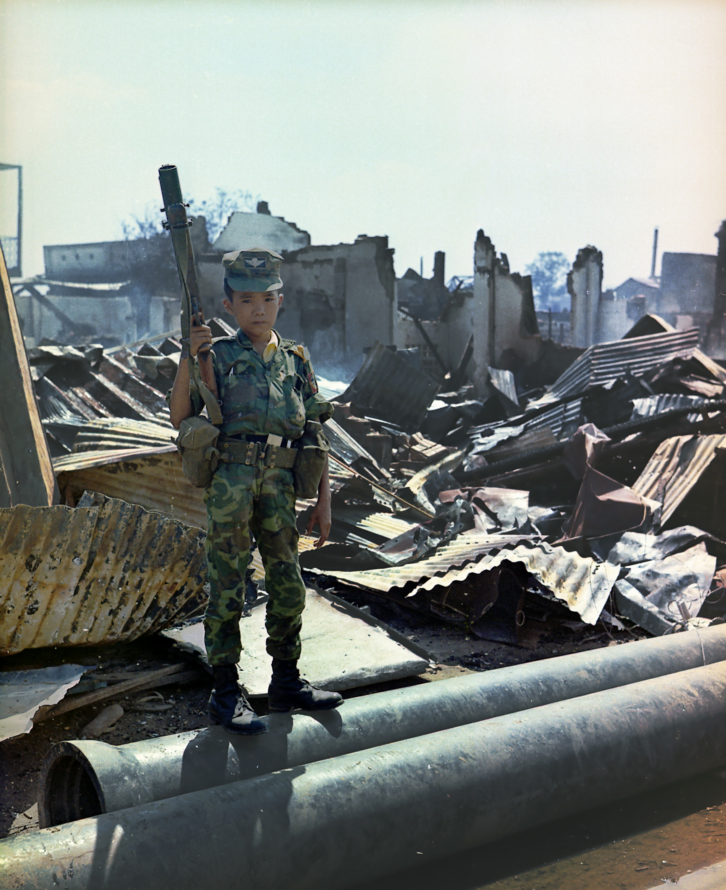 Tan Son Nhut, Vietnam, 1968. A twelve year old Vietnamese ARVN Airborne trooper who had been "adopted" by the Airborne Division, holding a M-79 grenade launcher. The picture was taken during a sweep of an Airborne Task Force Unit through the devastated area surrounding the French National Cemetery on Plantation Road after a day long battle there.